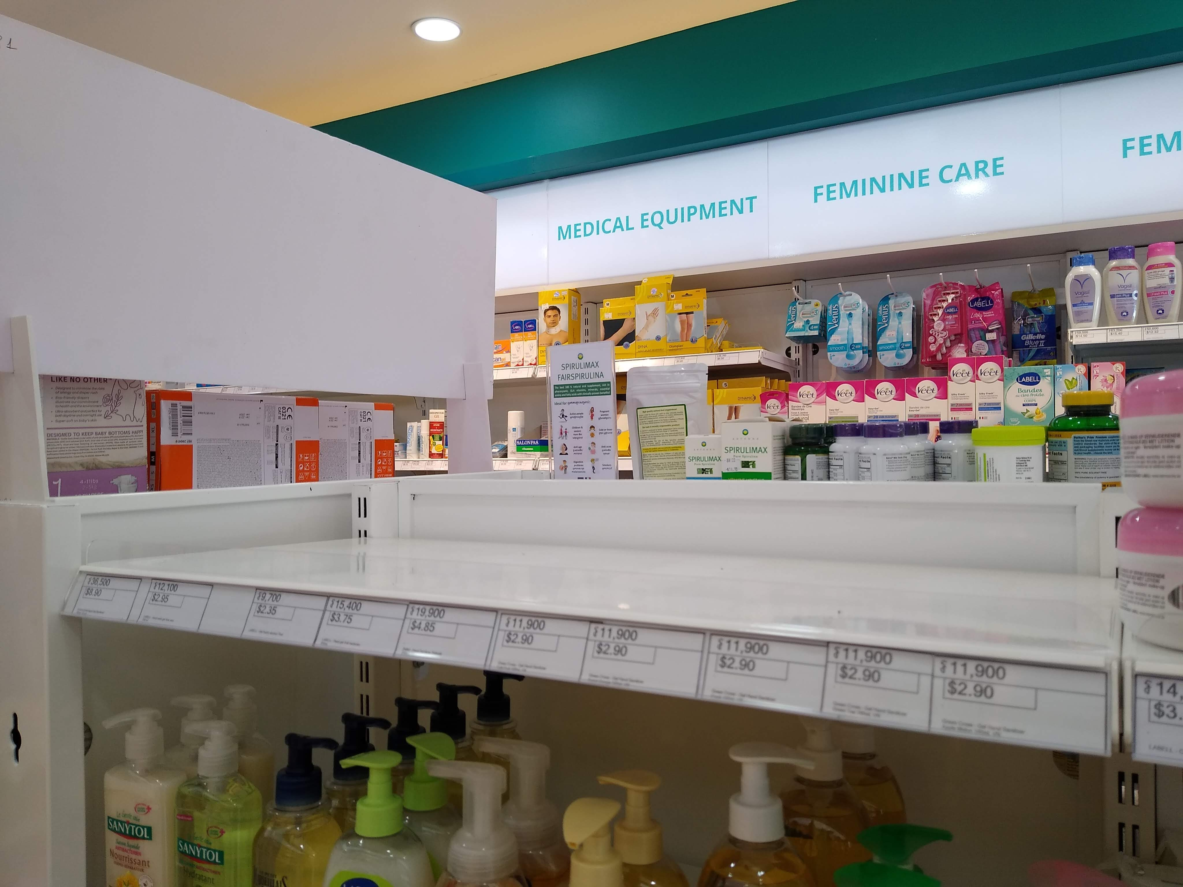 The hand sanitizer shelf at UCare Pharmacy in Kep, Cambodia on January 28, 2020. It is empty: amid the outbreak of 2019-nCoV, stores have been selling out of hand sanitizer and masks.